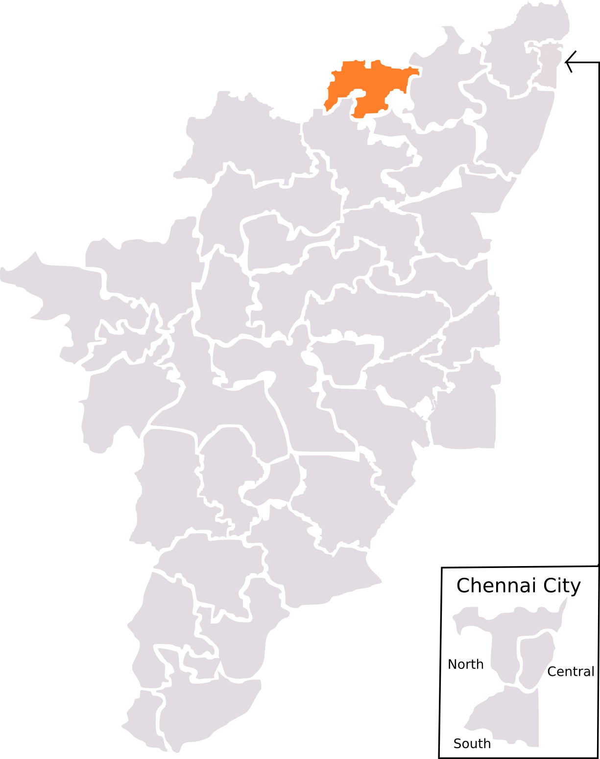 Lok Sabha Election map for Tamil Nadu that illustrates constituencies put in place by 1971 delimitation that was replaced in 2008. Map is based on ECI drawn map.